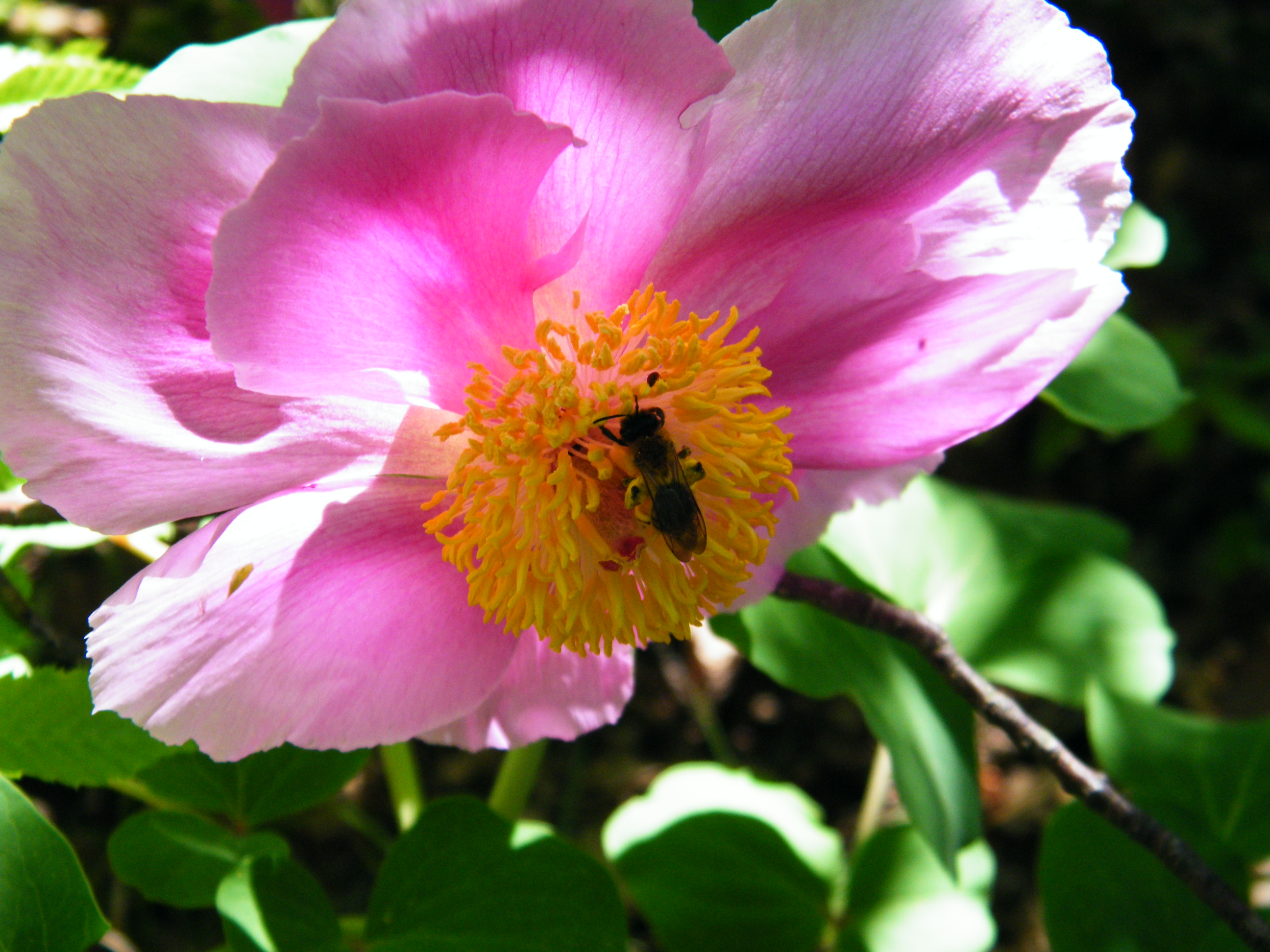 Paeonia daurica in Laspi Bay